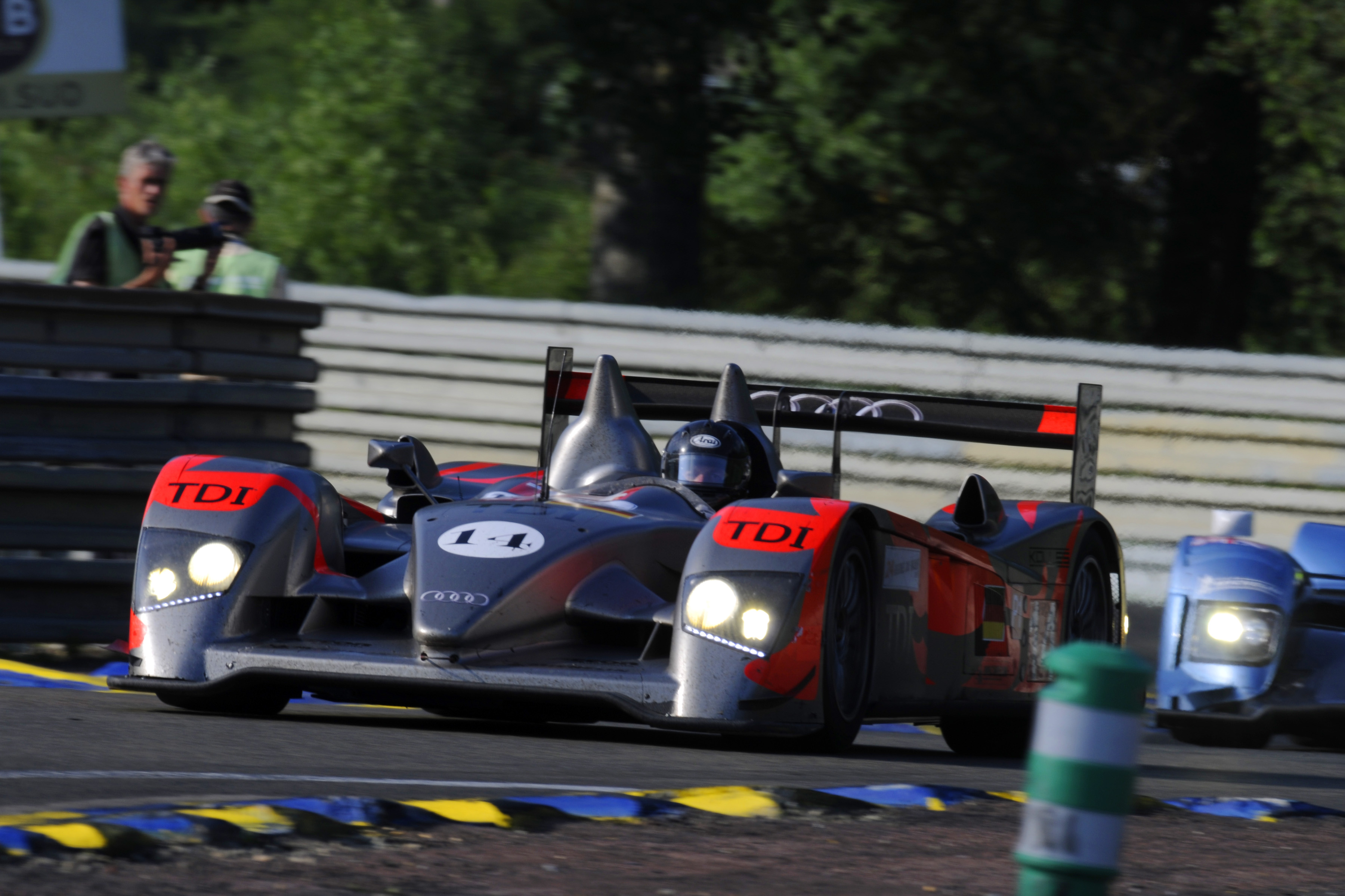 Scott Tucker at the 2010 Le Mans